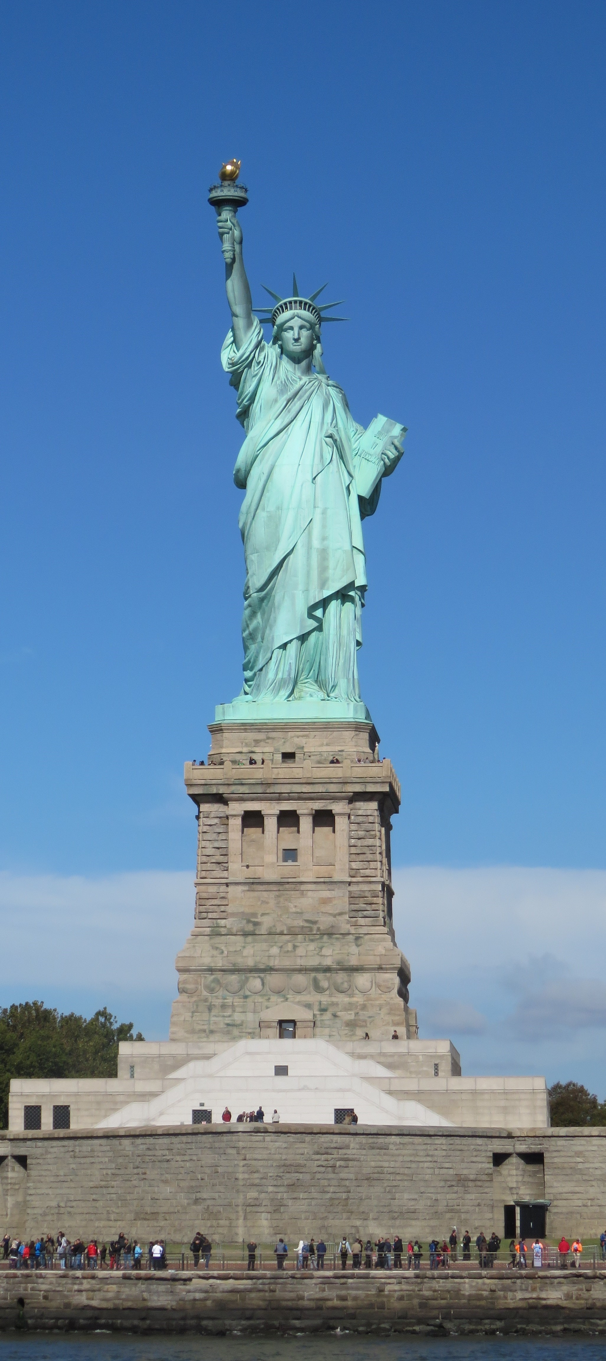 This photo was taken on a visit to the Statue of Lberty in October, 2015.